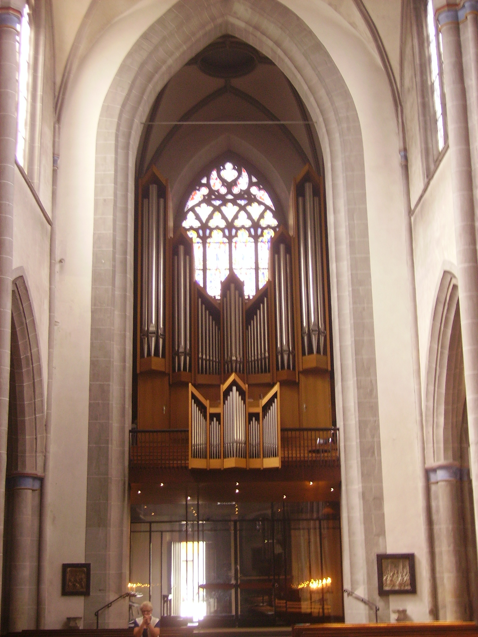 Organ of the Basilica St. Severin, Cologne